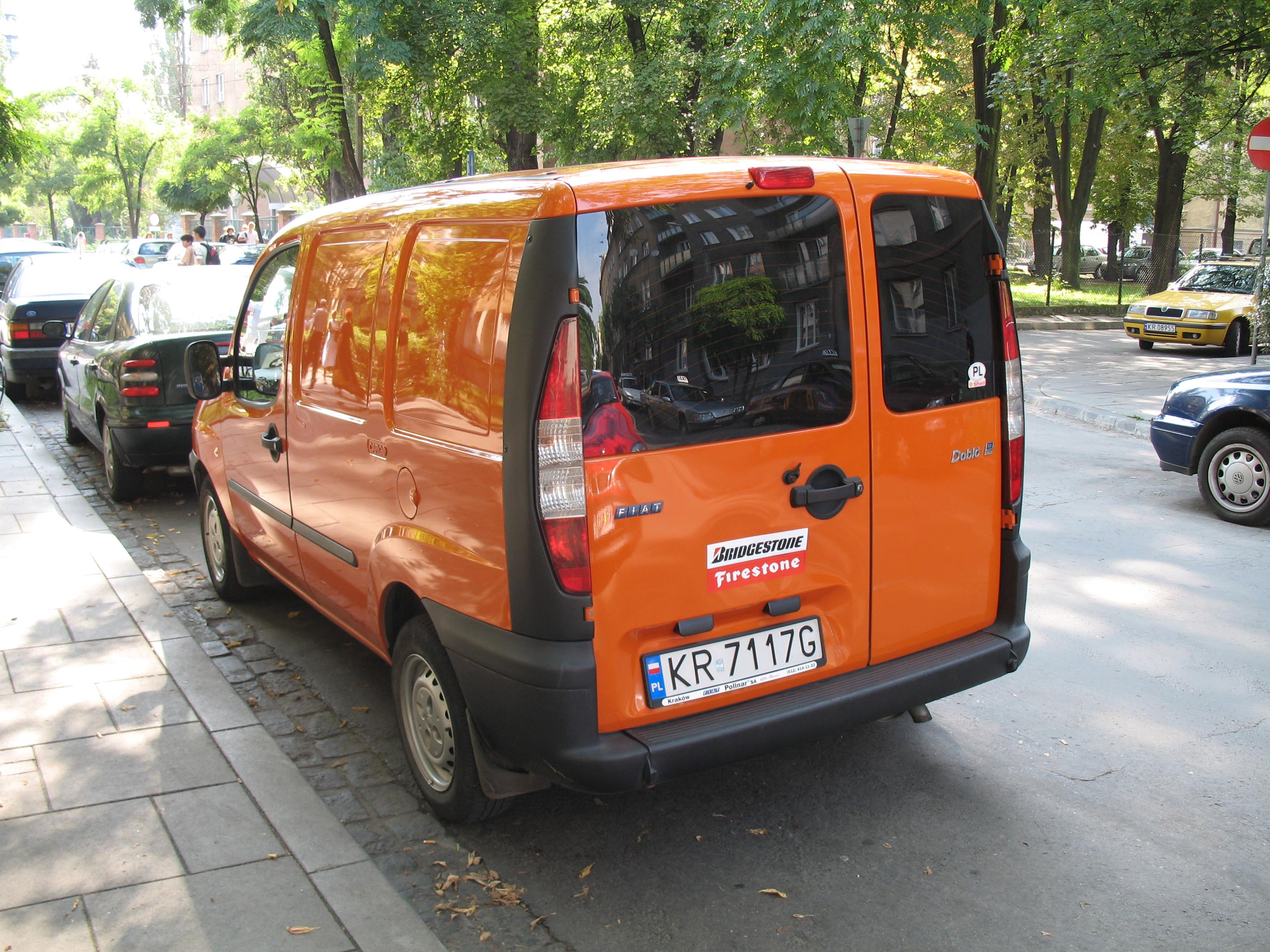 Fiat Doblò Cargo SX in Kraków, Poland - rear.